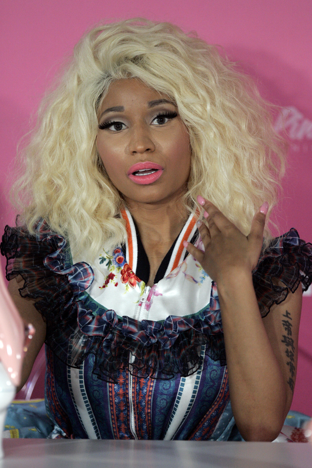 Nicki Minaj Launches Pink Friday Perfume 2012 - Sydney, Australia.